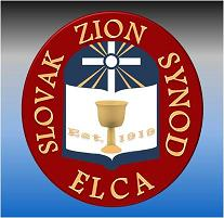 Emblem of the Slovak Zion Synod of the Evangelical Lutheran Church in America.